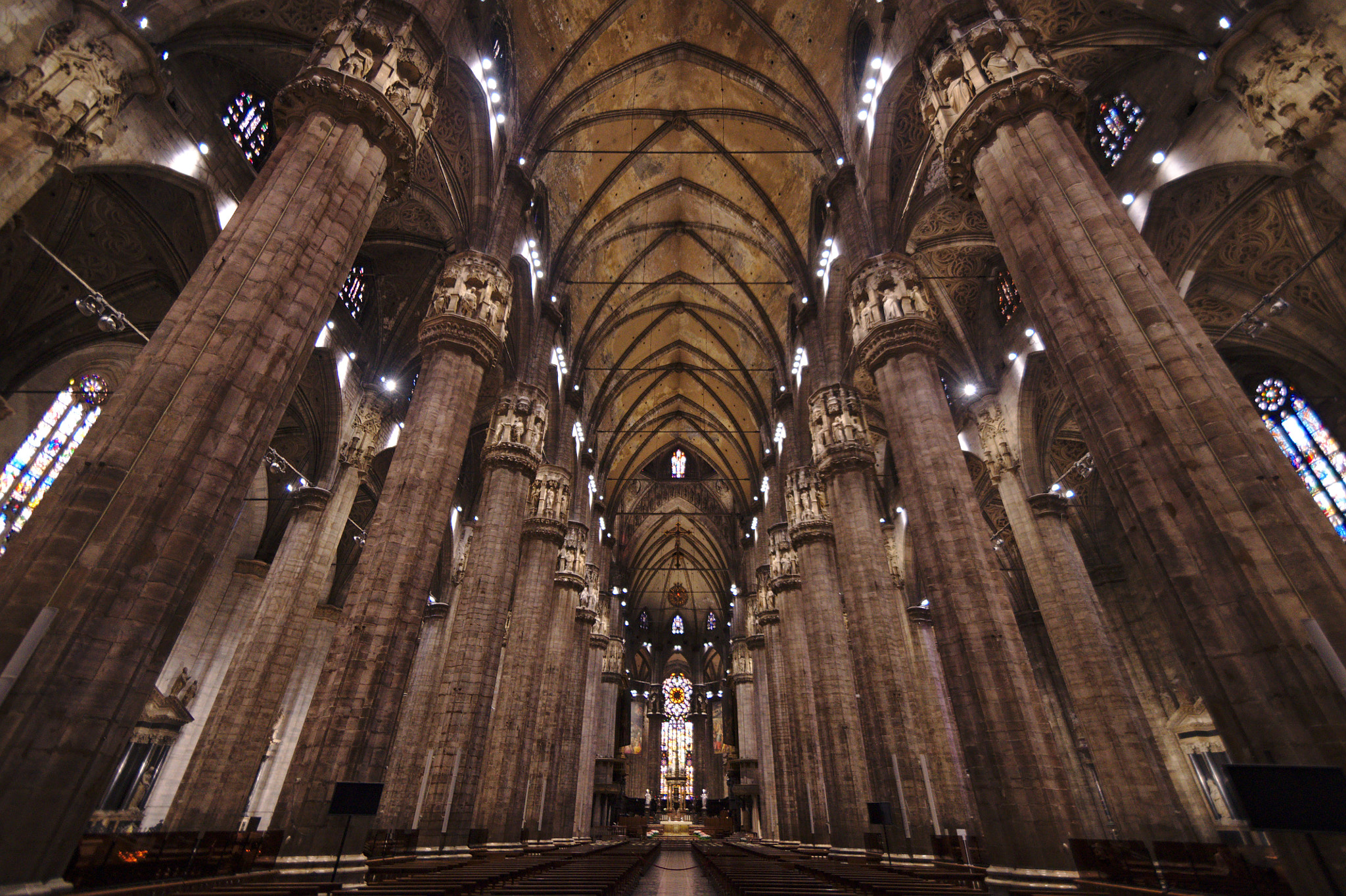 500px provided description: Mailand Fr?hjahr 2016 [#Milano ,#Dom ,#Duomo ,#Italien ,#Kirche ,#Weitwinkel ,#Mailand]